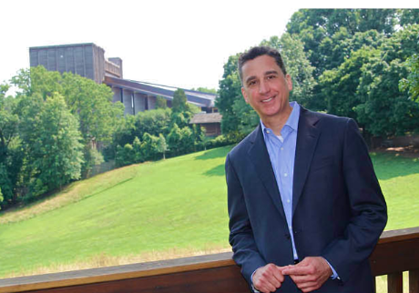 American conductor Emil de Cou at Wolf Trap Foundation for the Performing Arts